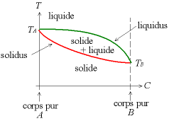 Ideal simple case for a binary phase diagram: unique solid solution.